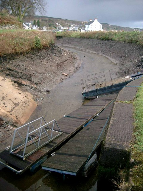 Bare bottom! In December 2006 this stretch of the Crinan Canal at Ardrishaig was drained for maintenance.